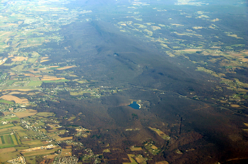 Oblique air photo of South Mountain in Maryland, looking north. Interstate 70 bisects the image. Taken and uploaded by James Stuby.